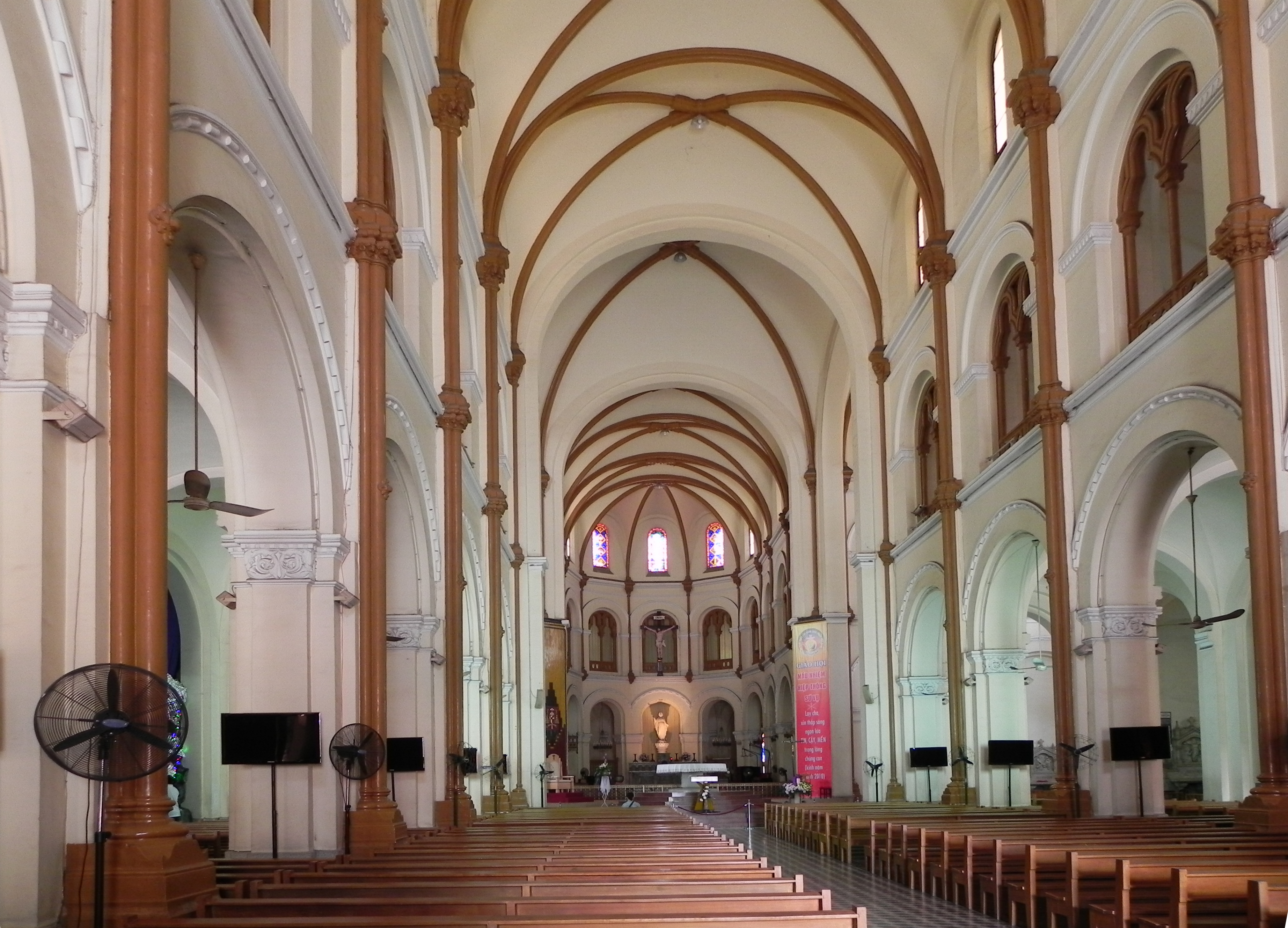 Notre Dame cathedral in Ho Chi Minh City, Vietnam